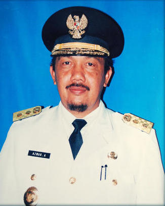 Azwar Abubakar as Acting Governor of Aceh